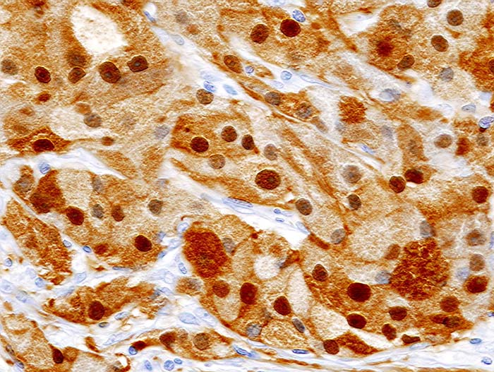 Histopathologic image of granular cell tumor of the skin. The same case as shown in a file "Granula_cell_tumor_(1)_skin.jpg". S-100 immunostain.